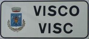 Sign when entering Visco, Friûl, Italy, showing above the official italian name and then friulian name Picture taken by fur:User:Klenje